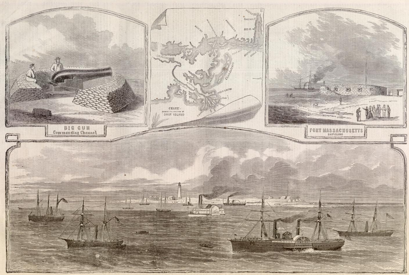 Drawing of Ship Island, Mississippi from the January 4, 1862 edition of Harper's Weekly